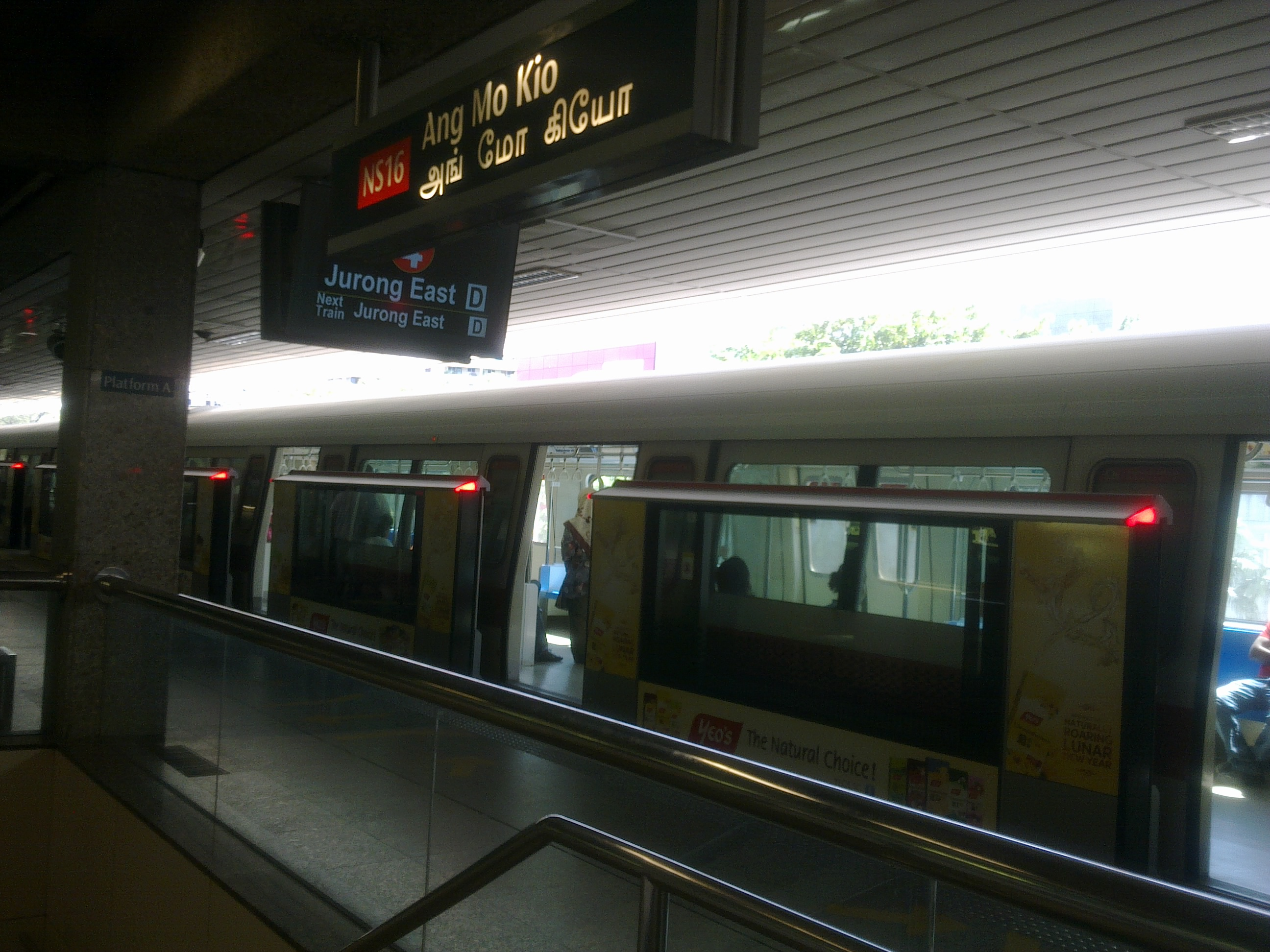 AMKHHPSD Operation taken by Darrylpoh